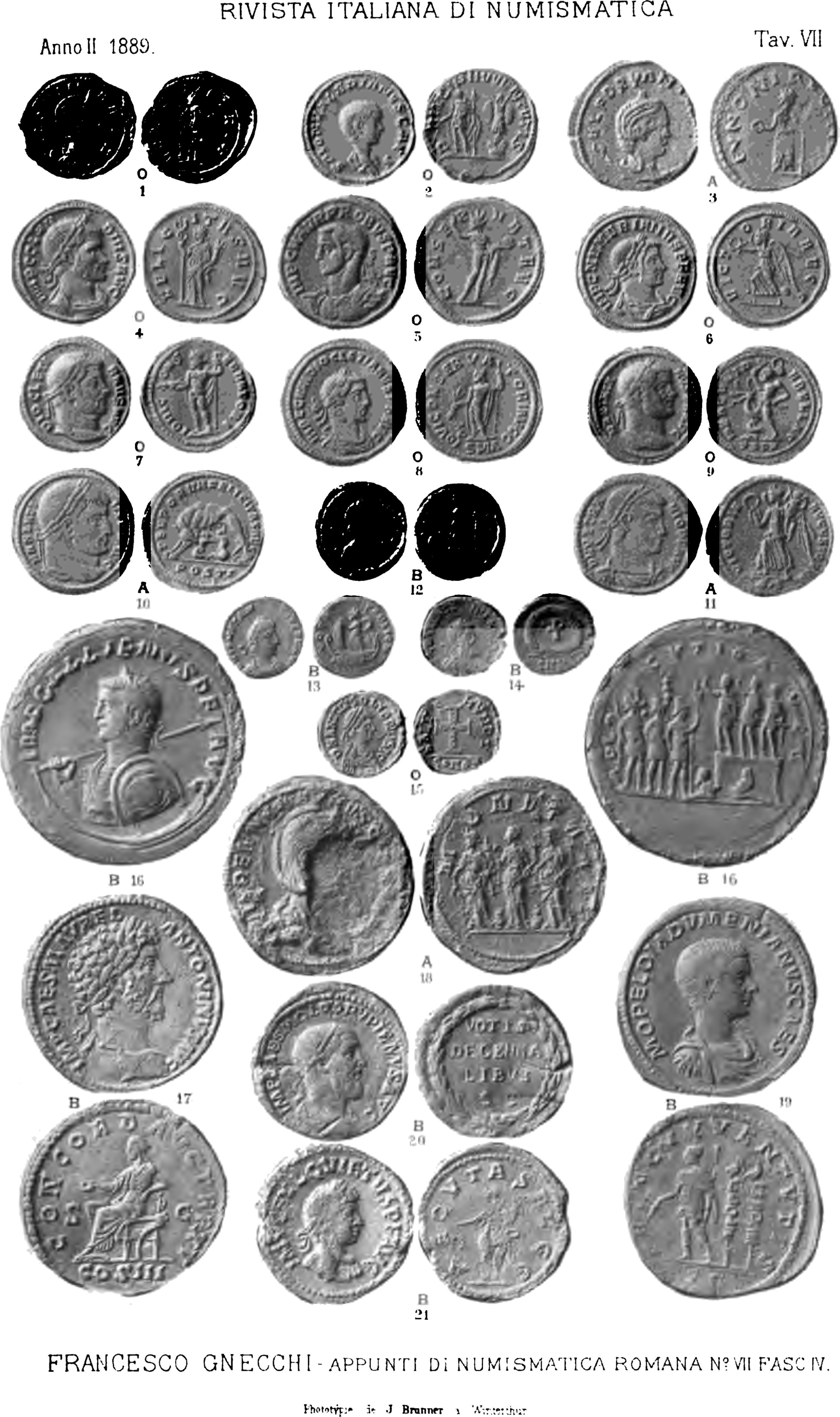 Table VII from "Rivista italiana di numismatica 1888.djvu p. 479 (../502) Roman coins